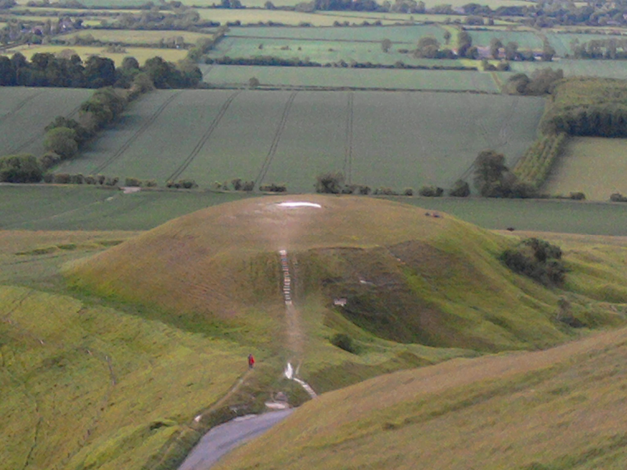 A photograph of Dragon Hill taken from the Uffington White Horse